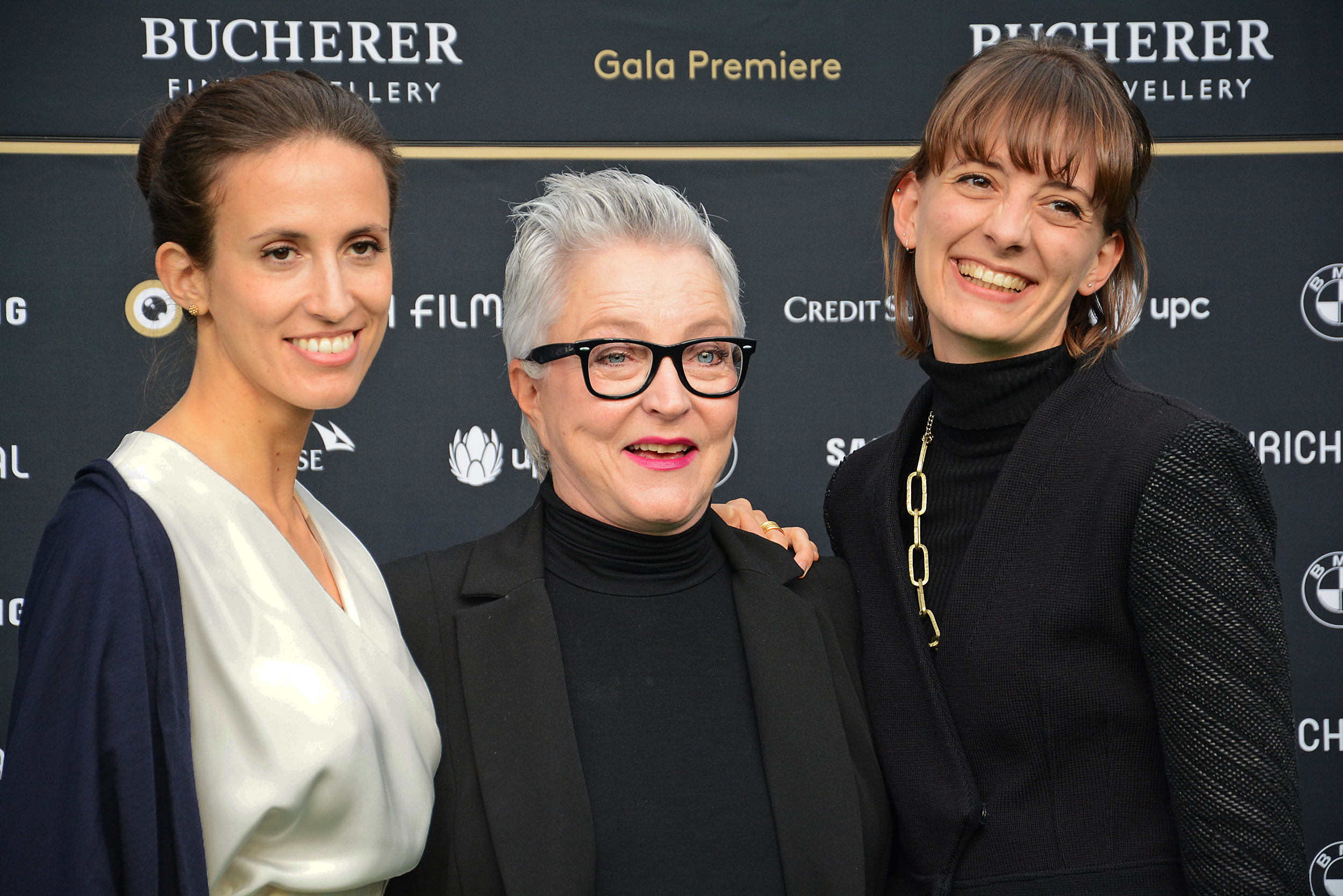 Director Annie Gisler, Protagonist and sexologist Maggie Tapert and friend attends the "La petit mort/The little death" photocall during the 14th Zurich Film Festival on October 2, 2018 in Switzerland.